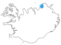 Map of Iceland showing the location of Öxarfjörður fjord.